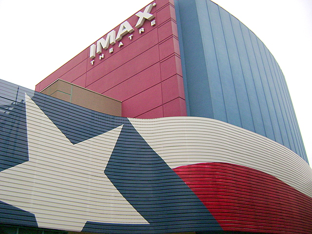 San Antonio Imax theater at the River Center Mall